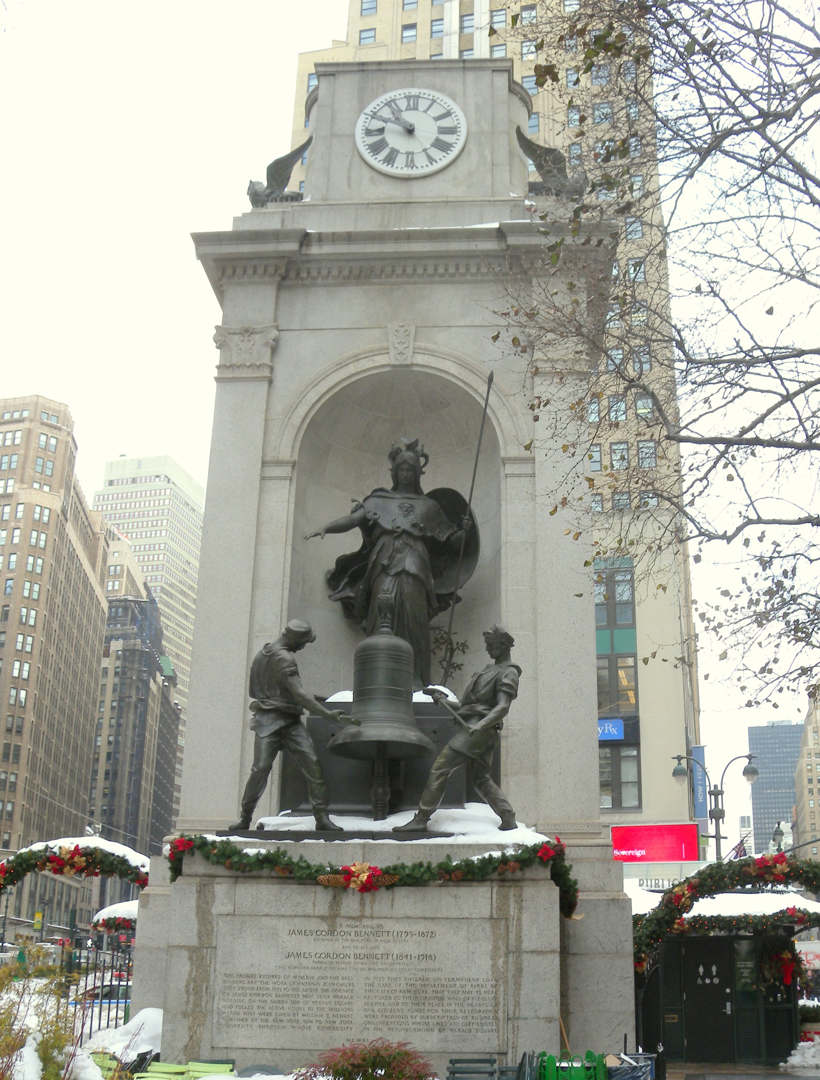 Looking north at clock in Herald Square on a sunny late morning after snow.